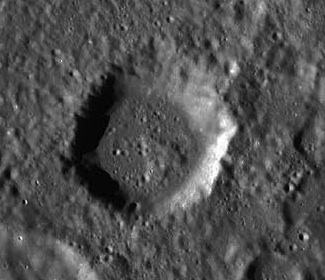 Carrington lunar crater - part of the chart LAC-28